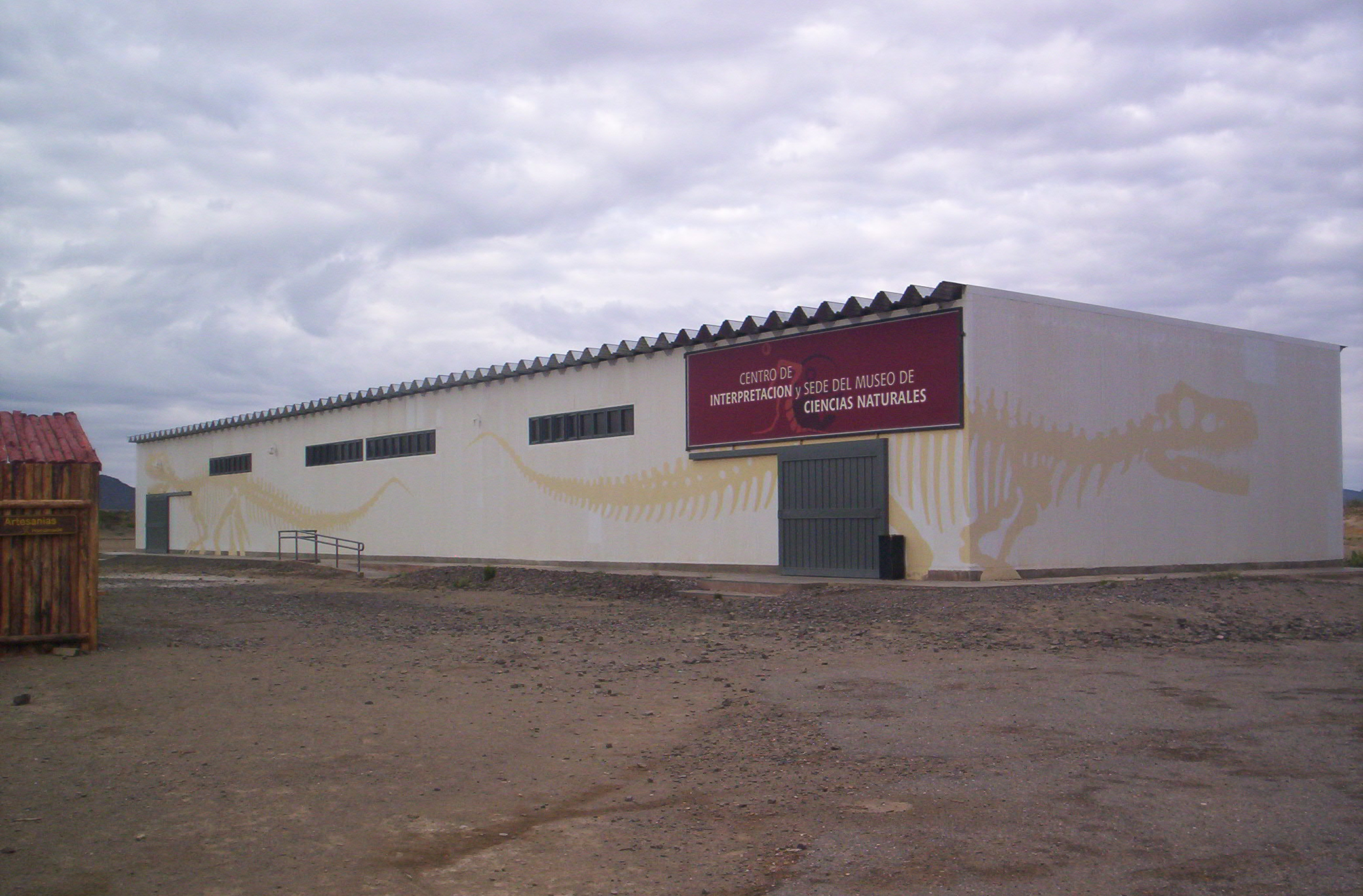 Given the natural science museum located in the provincial park Ischigualasto in the province of San Juan, Argentina